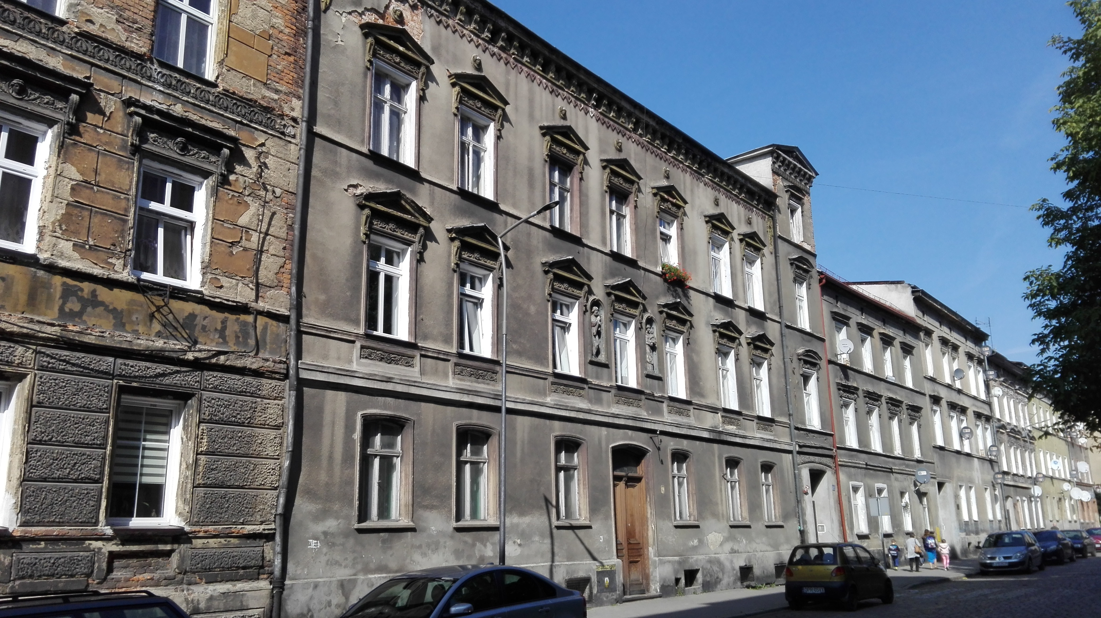 16 Młyńska Street in Prudnik